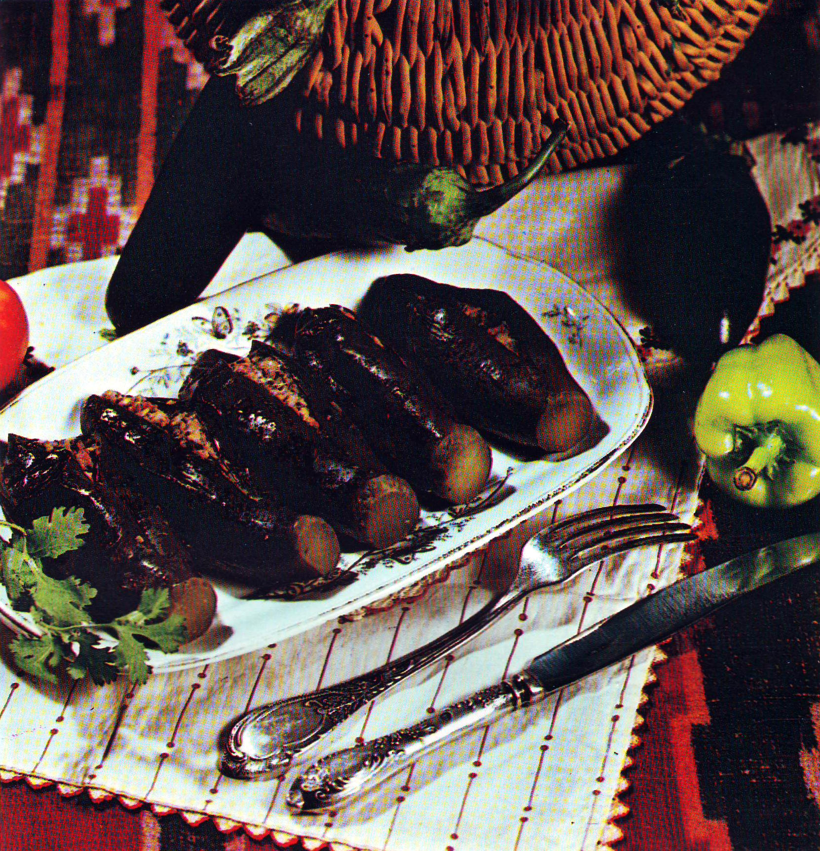 Cuisine of Azerbaijan: Badymdjan dolmasy (stuffed egg-plants)